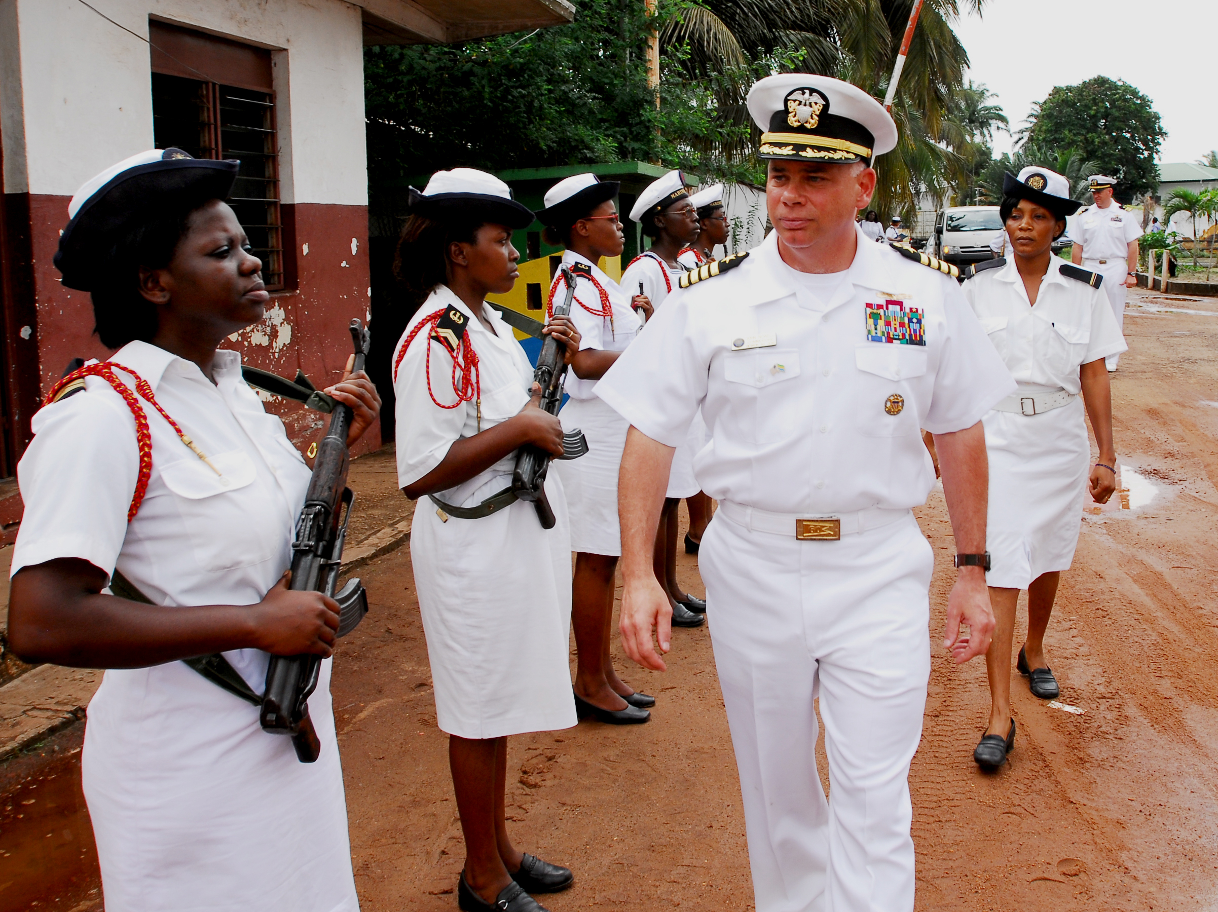 PORT GENTILE, Gabon (Jan. 10, 2008) Capt. John B. Nowell Jr., commodore, Africa Partnership Station (APS) is greeted by an all-female Gabonese Navy honor guard as he arrives to an APS meeting with Gabonese Regional Naval Commander Capt. Loulla Mabicka. APS is a multi-national effort to bring the latest training and techniques to maritime professionals in nine West and Central African countries to address the common threats of illegal fishing, smuggling and human trafficking. In addition to maritime training, APS will perform more than 20 humanitarian projects in the region. U.S. Navy photo by Mass Communication Specialist 2nd Class R.J. Stratchko (Released)